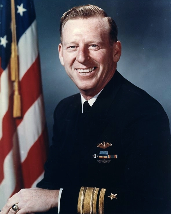 Portrait photograph of Medal of Honor recipient Rear Admiral Eugene B. Fluckey, USN.